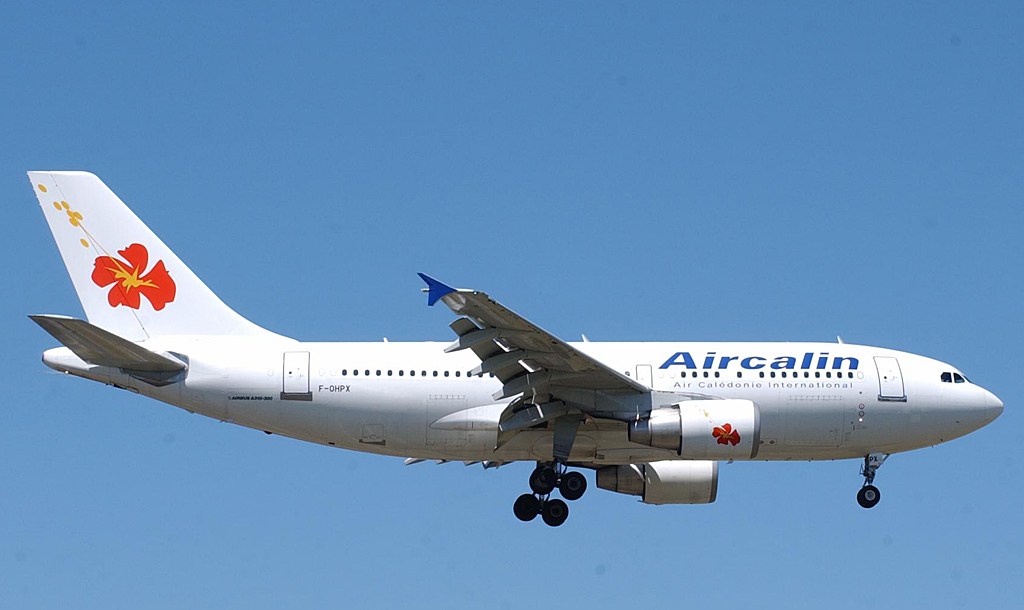 F-OHPX A310-325 of Air Calin at Sydney - Mascot on October 12, 2001.